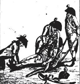 Sketch showing the death of General Johann Weber (swiss army) during the battle of Frauenfeld (May, 25th 1799)